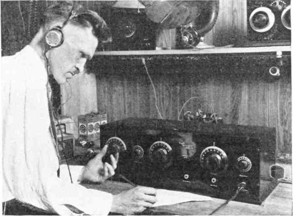 Man tuning an Eagle vacuum tube radio receiver in 1924. The radio is a 5 tube Neutrodyne tuned radio frequency (TRF) set, with two stages of tuned radio frequency amplification, a grid-leak detector, and two stages of audio frequency amplification.. Tuning in a station on early TRF radios was a complicated process. The set has 3 tuned circuits, controlled by the 3 large knobs, which had to be tuned in unison to the new station. If the circuits were tuned to different frequencies, very little signal would get through the receiver and be heard. So finding a station was a process of successive approximation, going back and forth between the knobs, adjusting them, until the station was loudest in the earphones. Once a station was found, the graduation numbers on the knobs were written down as this man is doing, to make it possible to find the station again. This was called logging the station. Later TRF sets had the capacitors of the tuned circuits "ganged"; linked together mechanically, so they could be tuned in tandem with a single knob, but in early sets like this the resonant frequencies of the tuned circuits didn't "track" well enough to allow this.